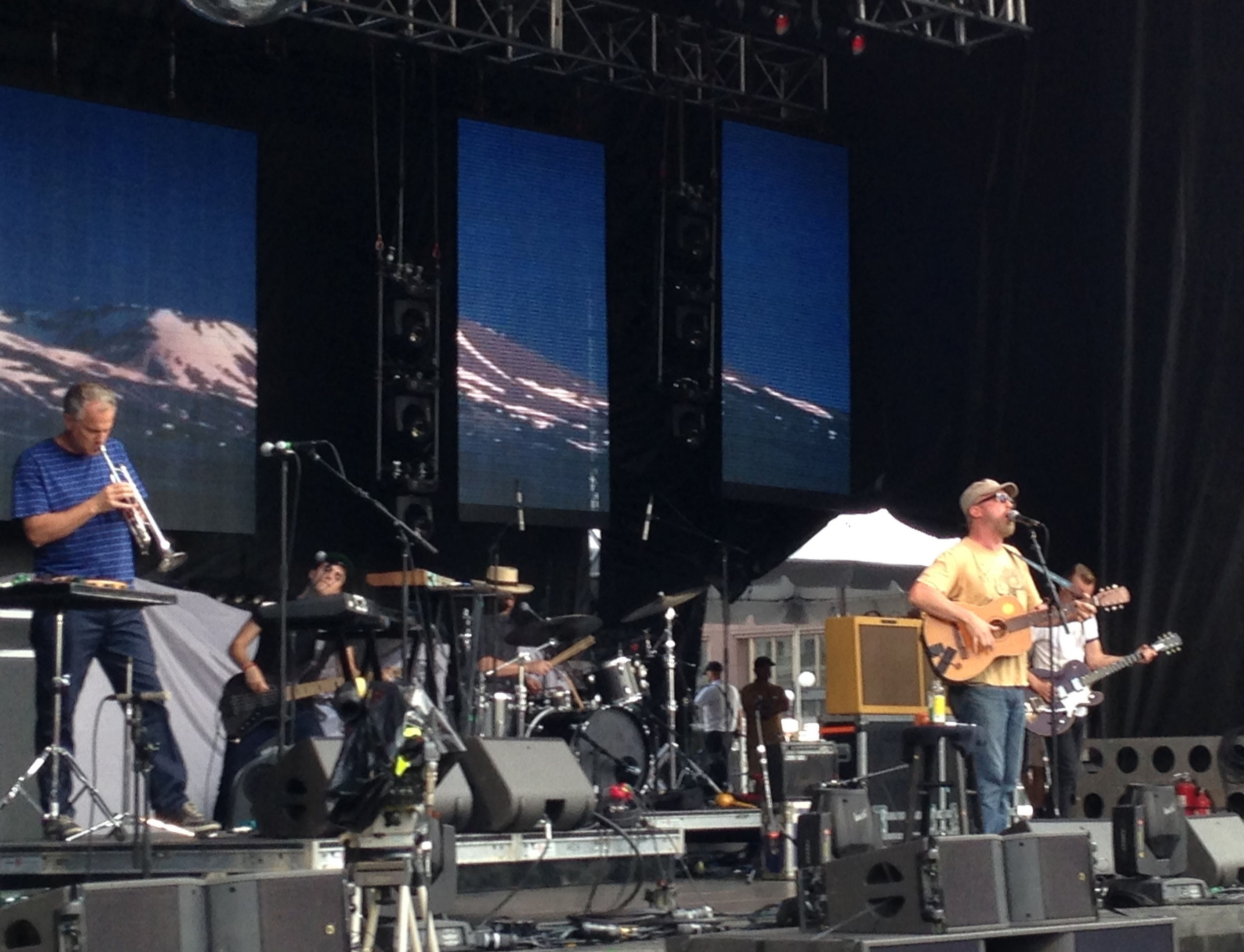 The band CAKE playing in Cleveland, OH 8/26/18.